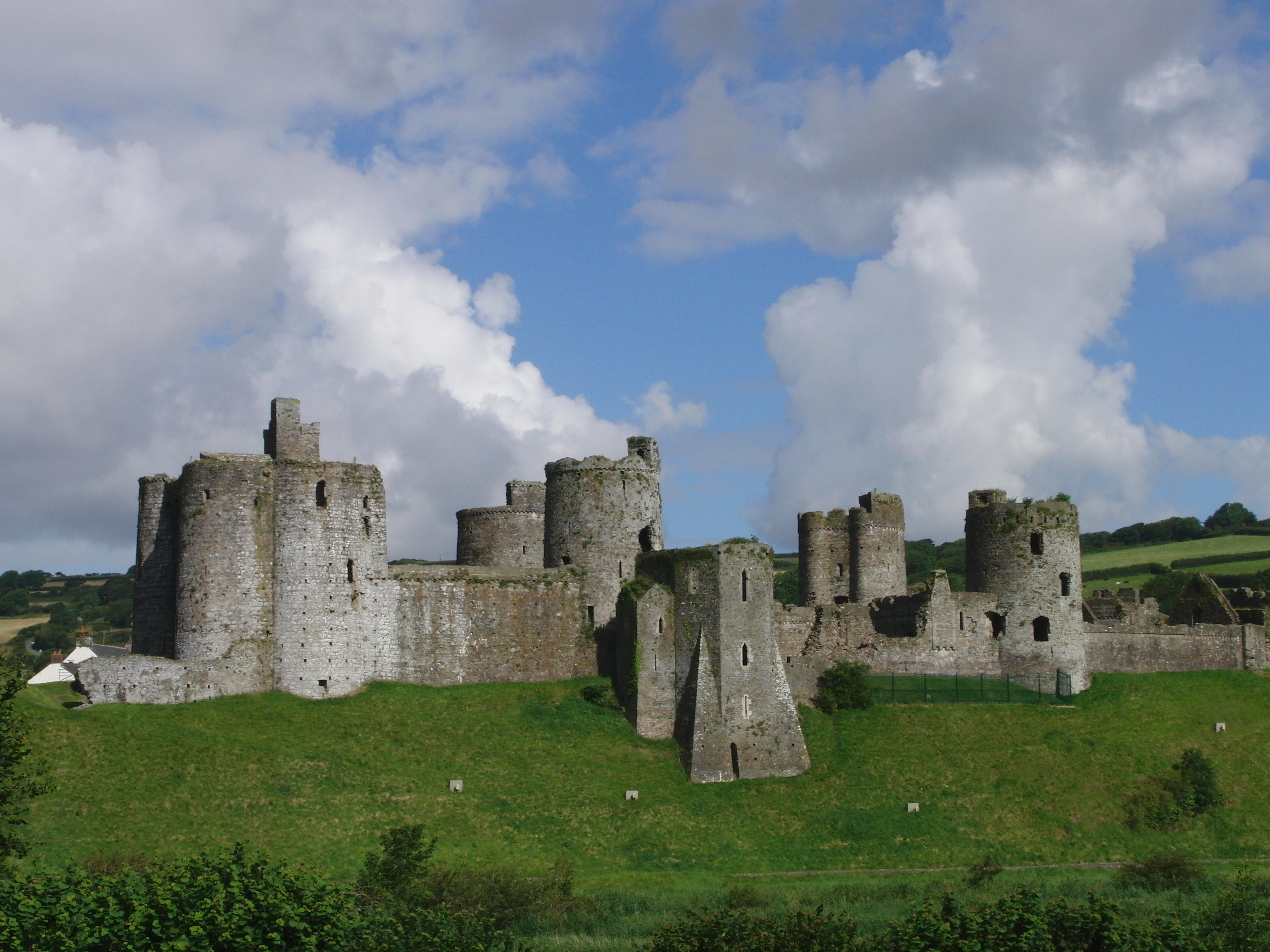 The east side of Kidwelly Castle as seen from a nearby hill